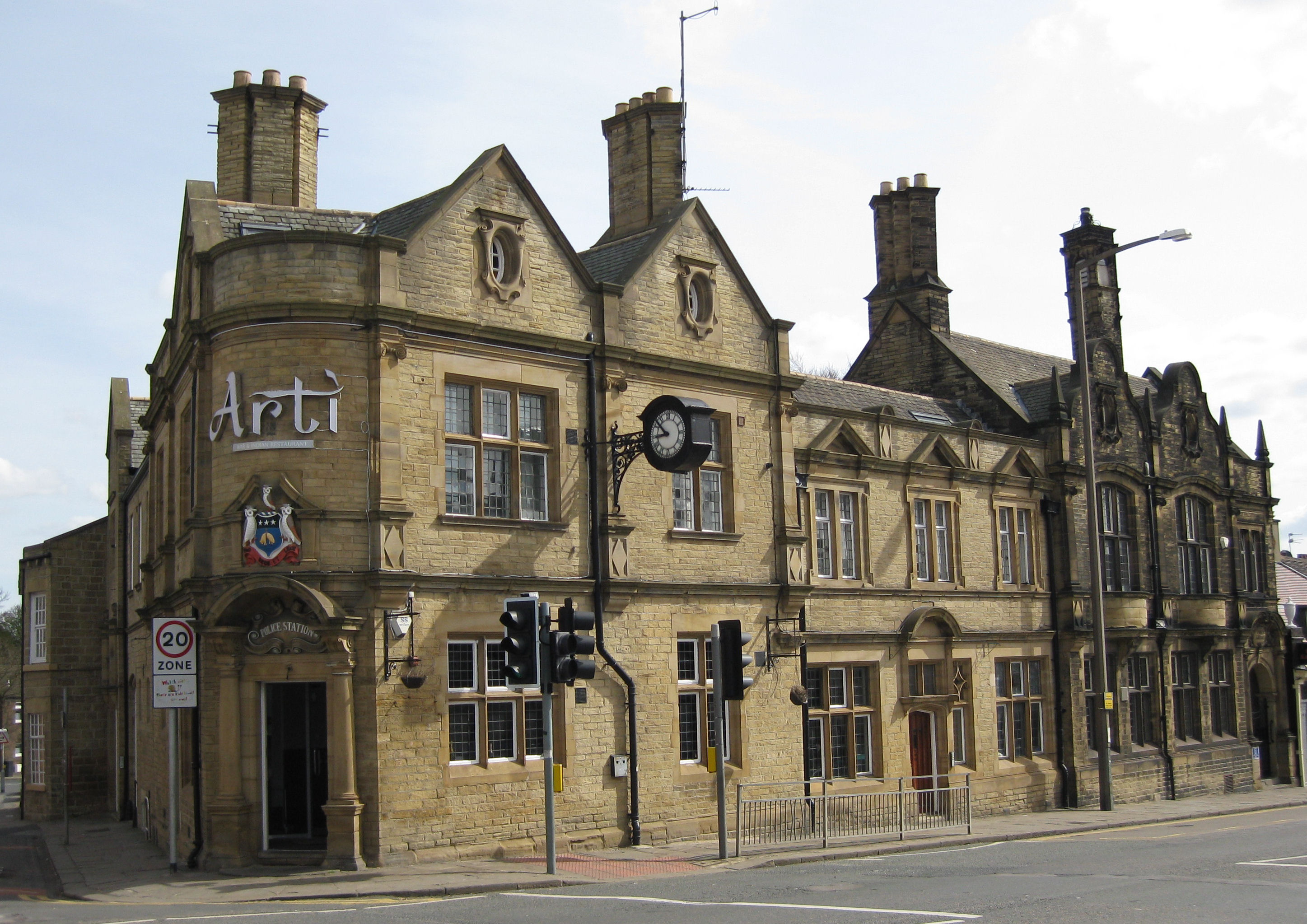 Old Police Station and Library (former fire station), Harrogate Road, Chapel Allerton, Leeds LS7